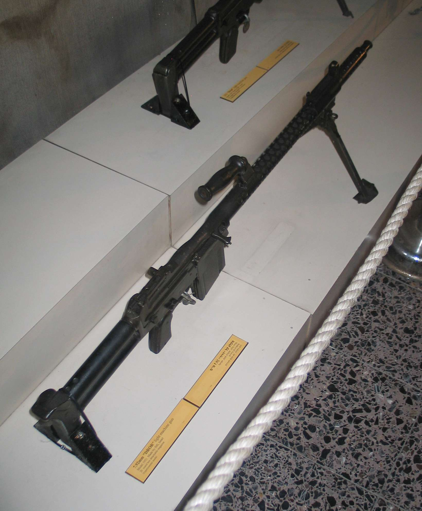 Batey ha-Osef museum, Tel Aviv, Israel. Dror light machine gun